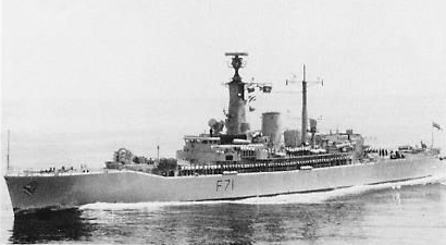 The Royal Navy Leander-class frigate HMS Scylla (F71) underway as part of the NATO Standing Naval Force Atlantic, in 1989.